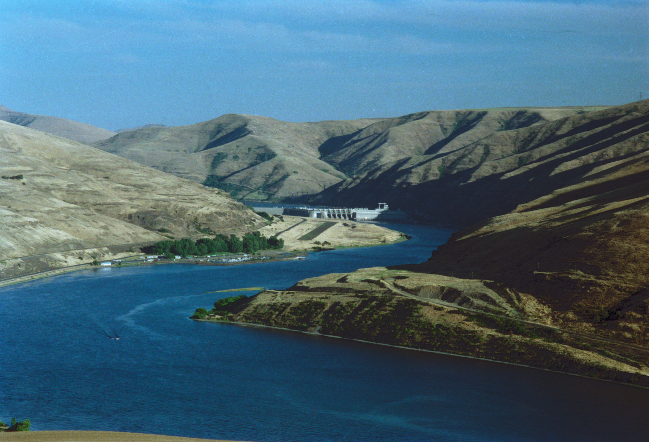 Lower Granite Dam